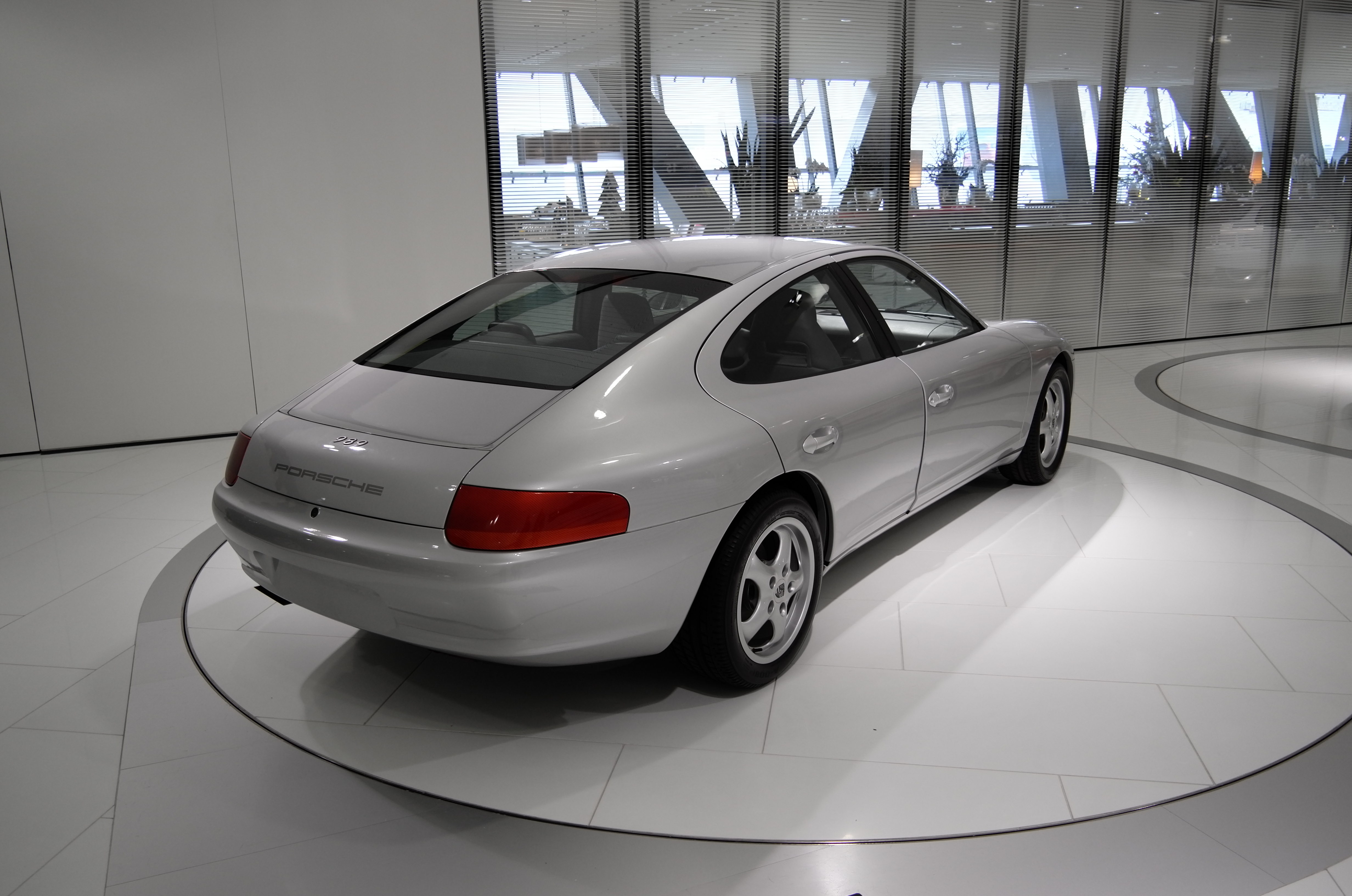 Porsche 989 prototype. Picture taken in the Porsche Museum in Stuttgart, Germany. Camera used: Leica T.